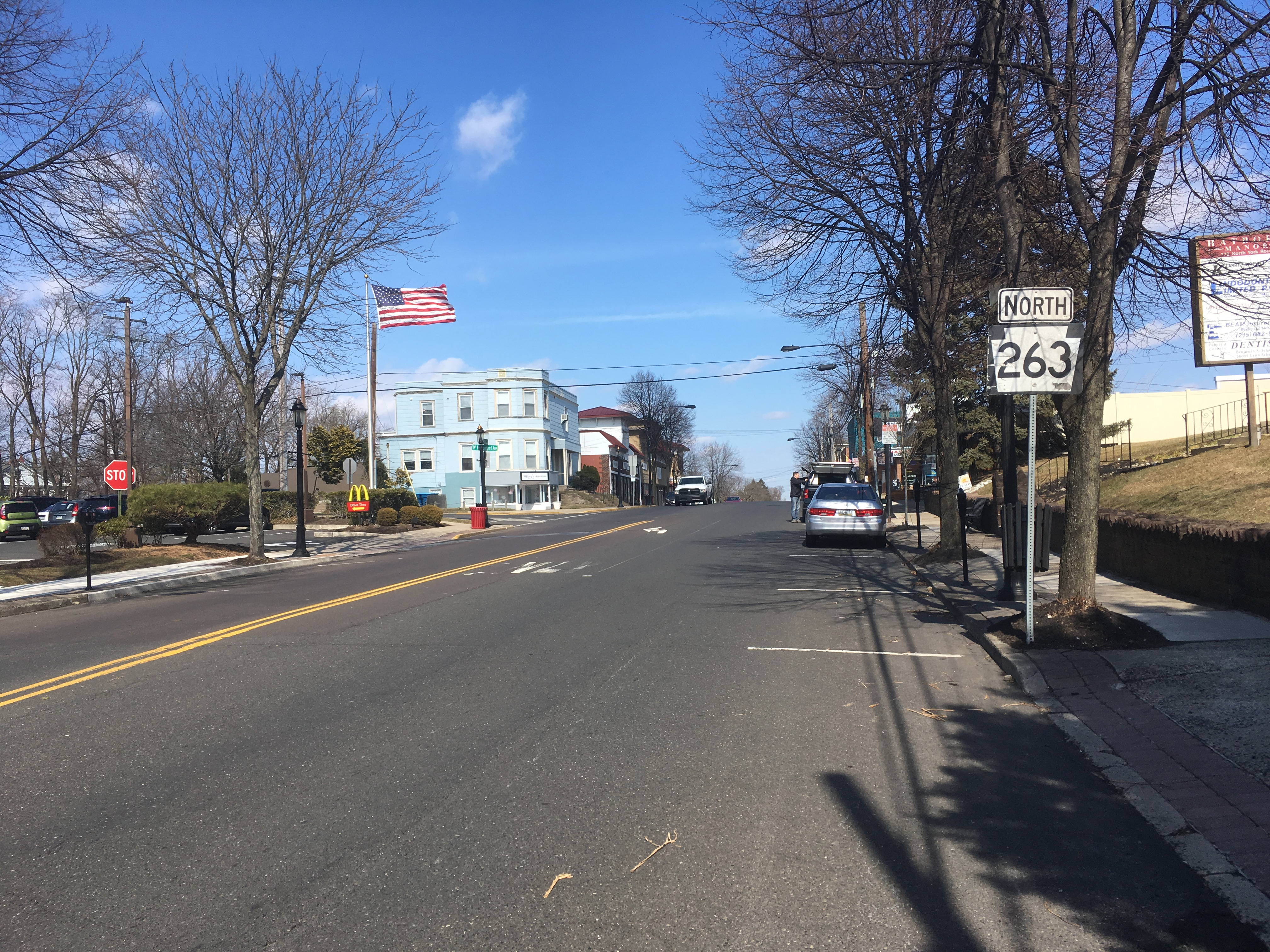 Northbound Pennsylvania Route 263 (York Road) past the intersection with the western terminus of Pennsylvania Route 332 (Montgomery Avenue) in Hatboro, Pennsylvania